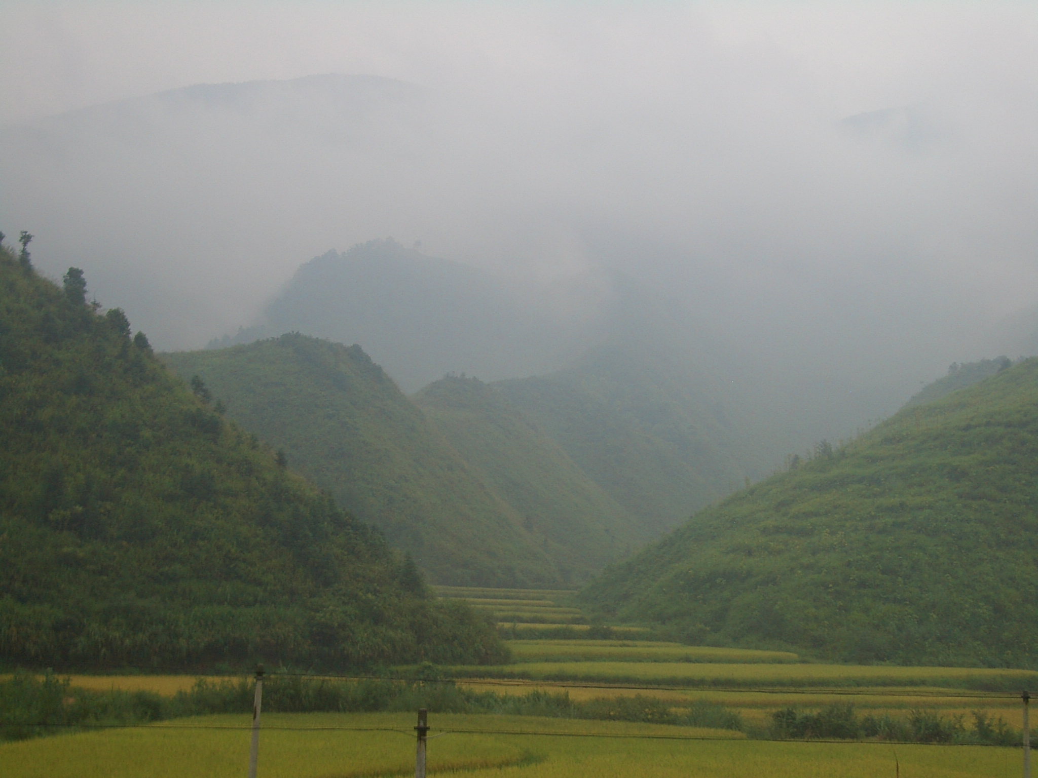 Rice fields in Tongshan County, Hubei, in one of many valleys in Mufu Mountains. Picture taken from G106 east of Tongshan.